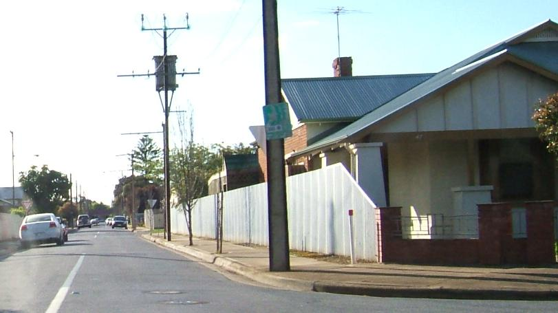 street in Cheltenham, South Australia